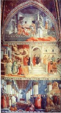 Filippo lippi frescos in the cathedral of prato